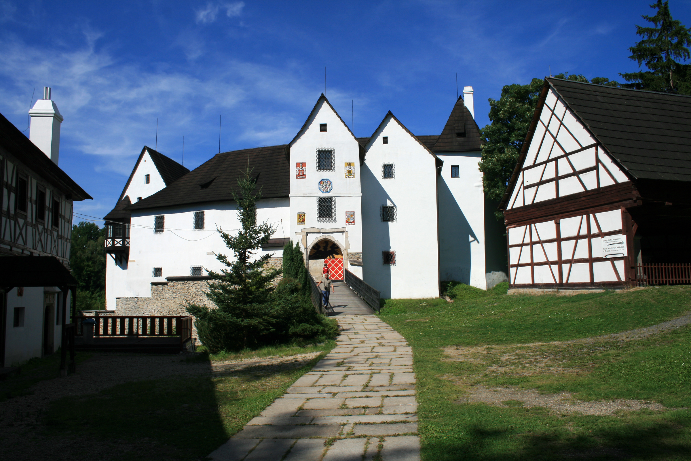 Castle Seeberg (Ostroh) in Czech Republic, Region Karlovy Vary